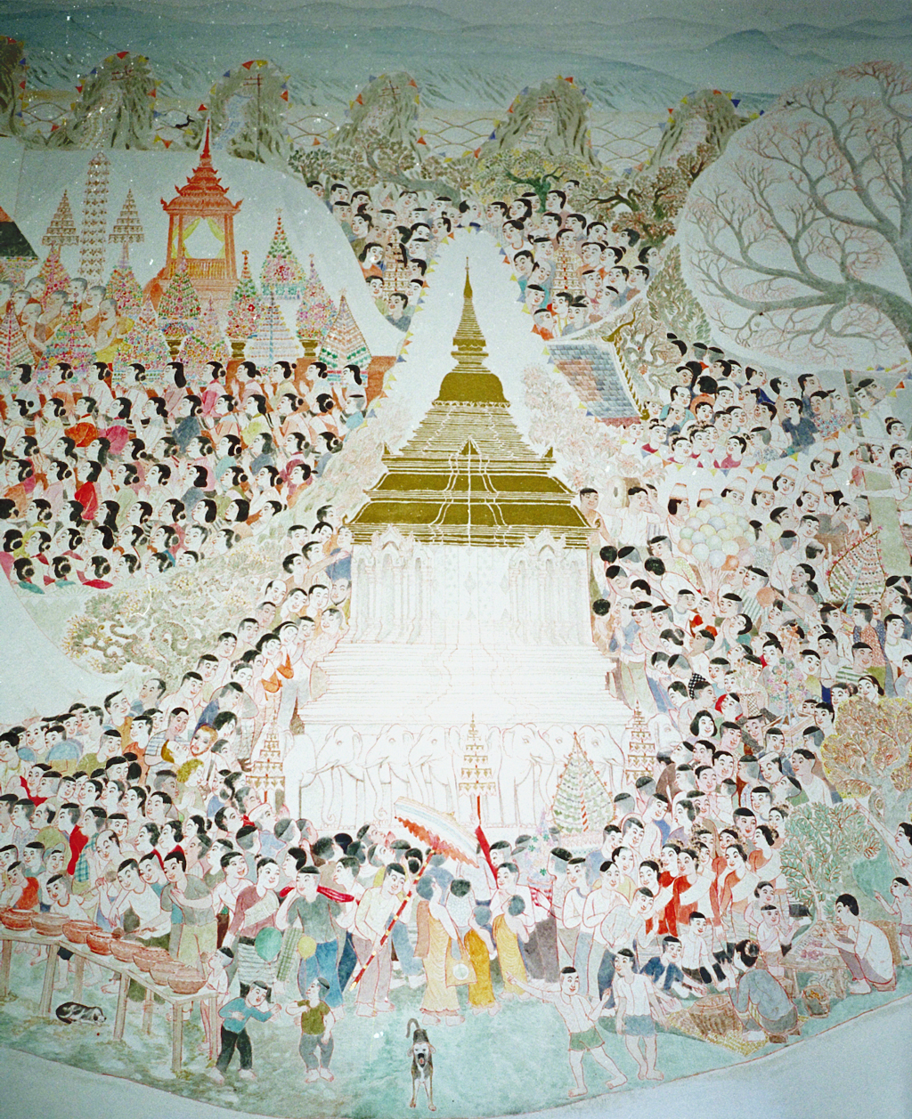 Wat Buppharam, Chiang Mai: mural in first floor depicting the inauguration of Wat Chiang Man